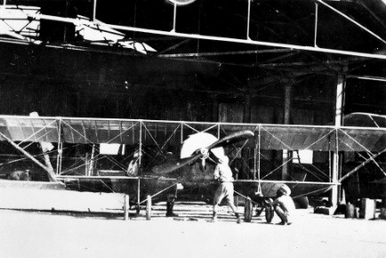 Two unidentified men, probably air mechanics working on a Caudron aircraft in a hangar, which was used by the Half Flight in Mesopotamia during the campaign in 1916.